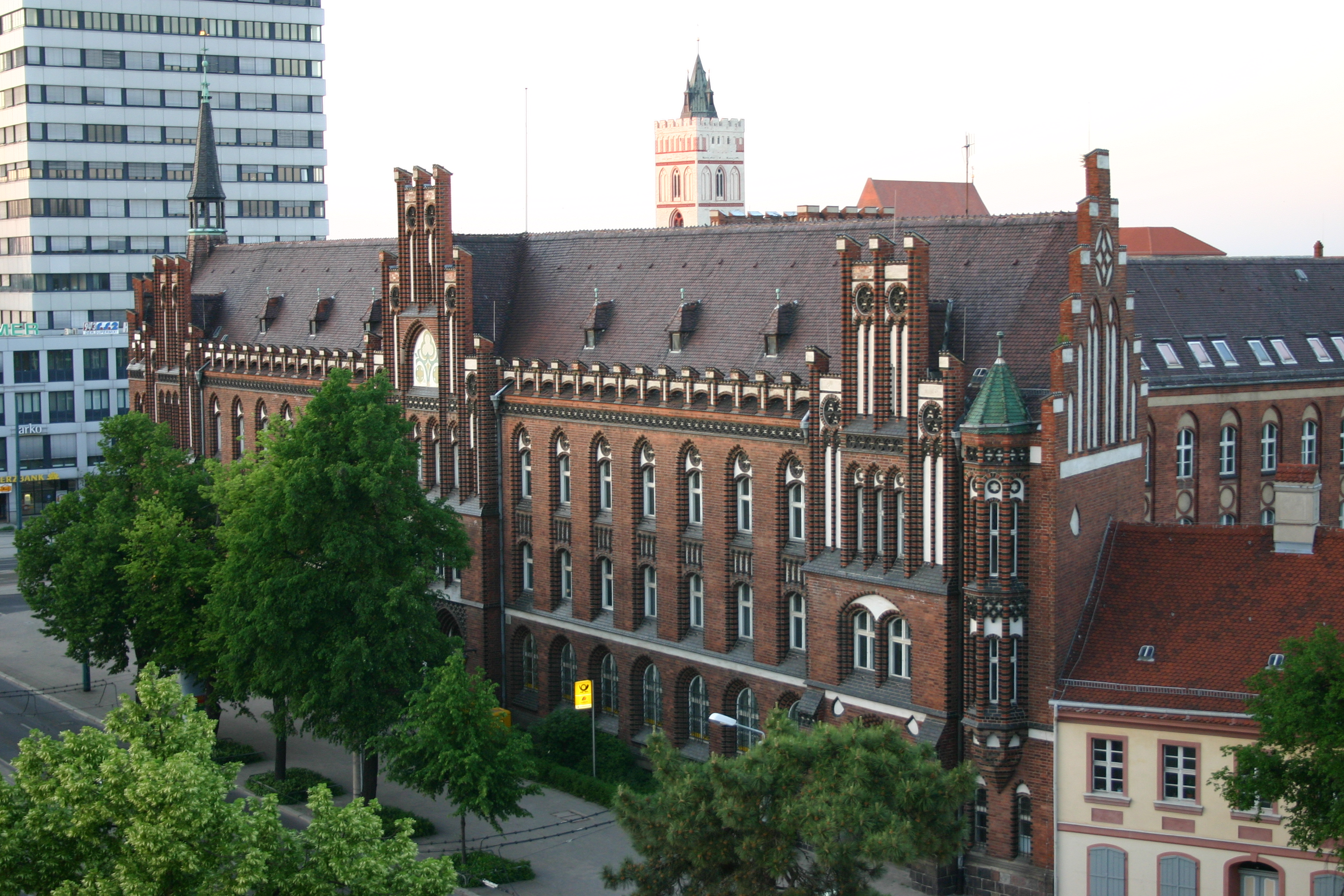 Post office building in the city center of Frankfurt (Oder), Germany